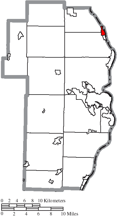 Map of the municipal and township boundaries of Jefferson County, Ohio, United States, as of the 2000 census, with the location of the village of Stratton highlighted. Township borders are shown only in unincorporated areas in order to differentiate incorporated and unincorporated areas more clearly.